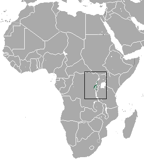 Niobe's Shrew (Crocidura niobe) range